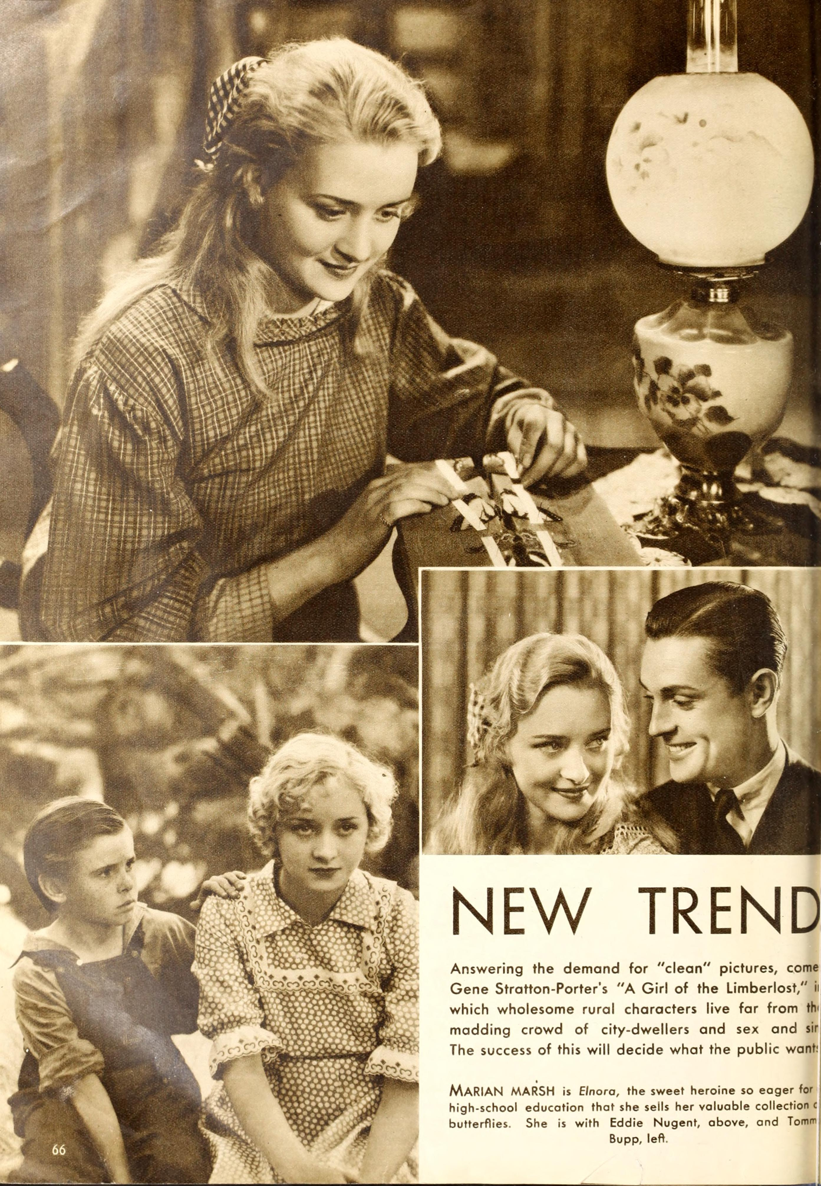 Magazine spread with photos from Monogram Pictures' A Girl of the Limberlost (1934)